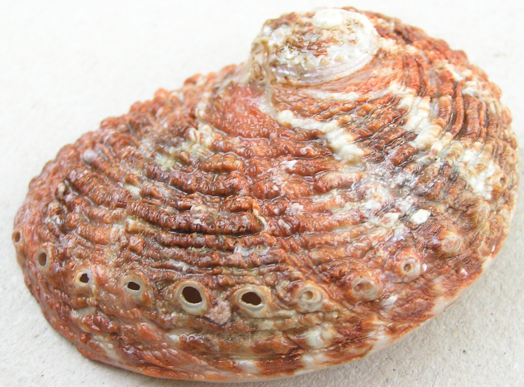 Haliotis roei Gray, 1826; family Haliotidae; Western Australia